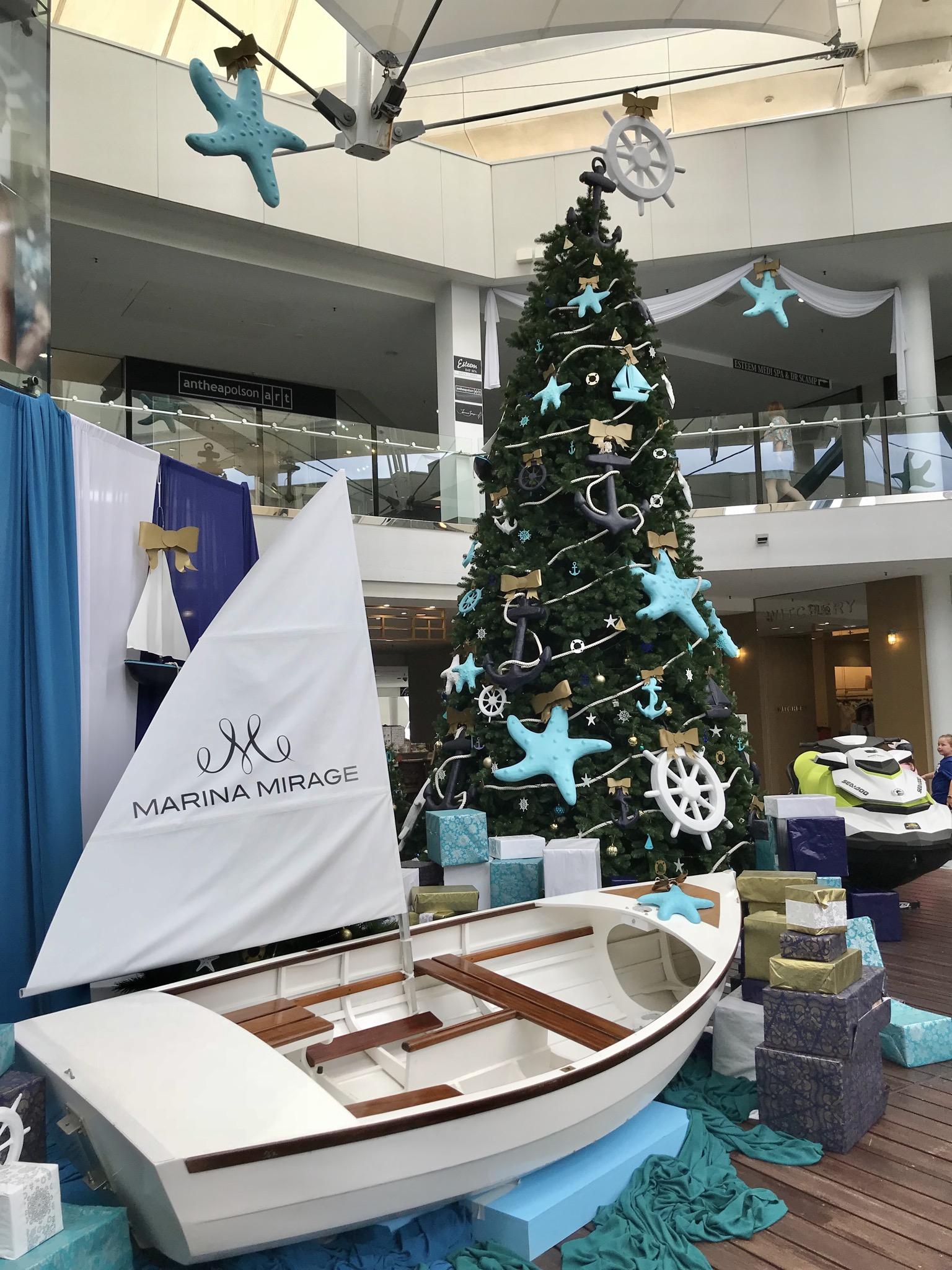 Christmas tree at Marina Mirage Shopping Centre at the Main Beach, Queensland